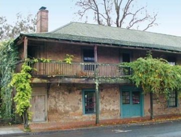 Blue Wing Inn Adobe - Sonoma State Historic Park